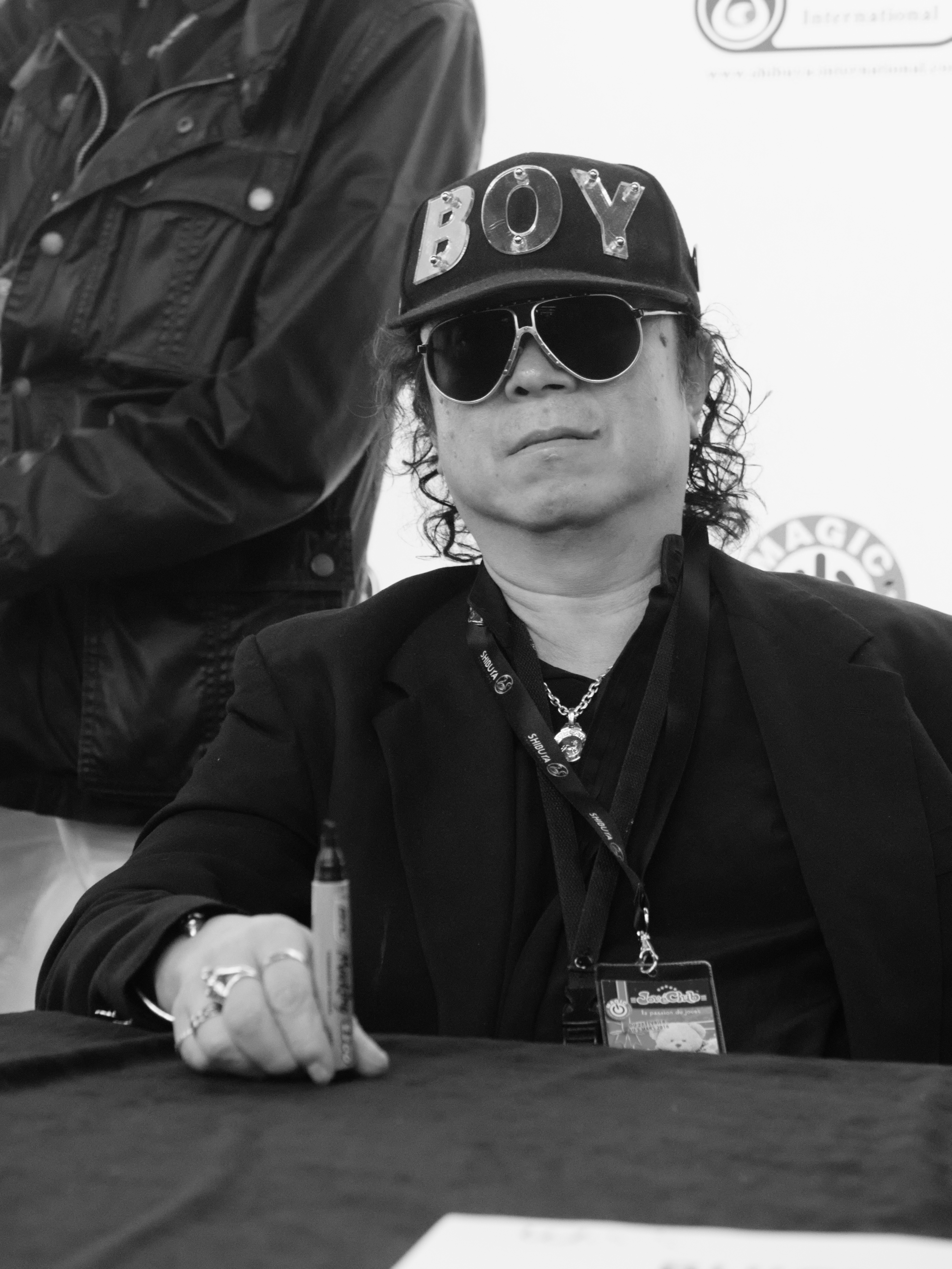 Photograph taken at the 2016 edition of the "Monaco Anime Game International Conferences" (MAGIC) organized by Shibuya International in Monaco.